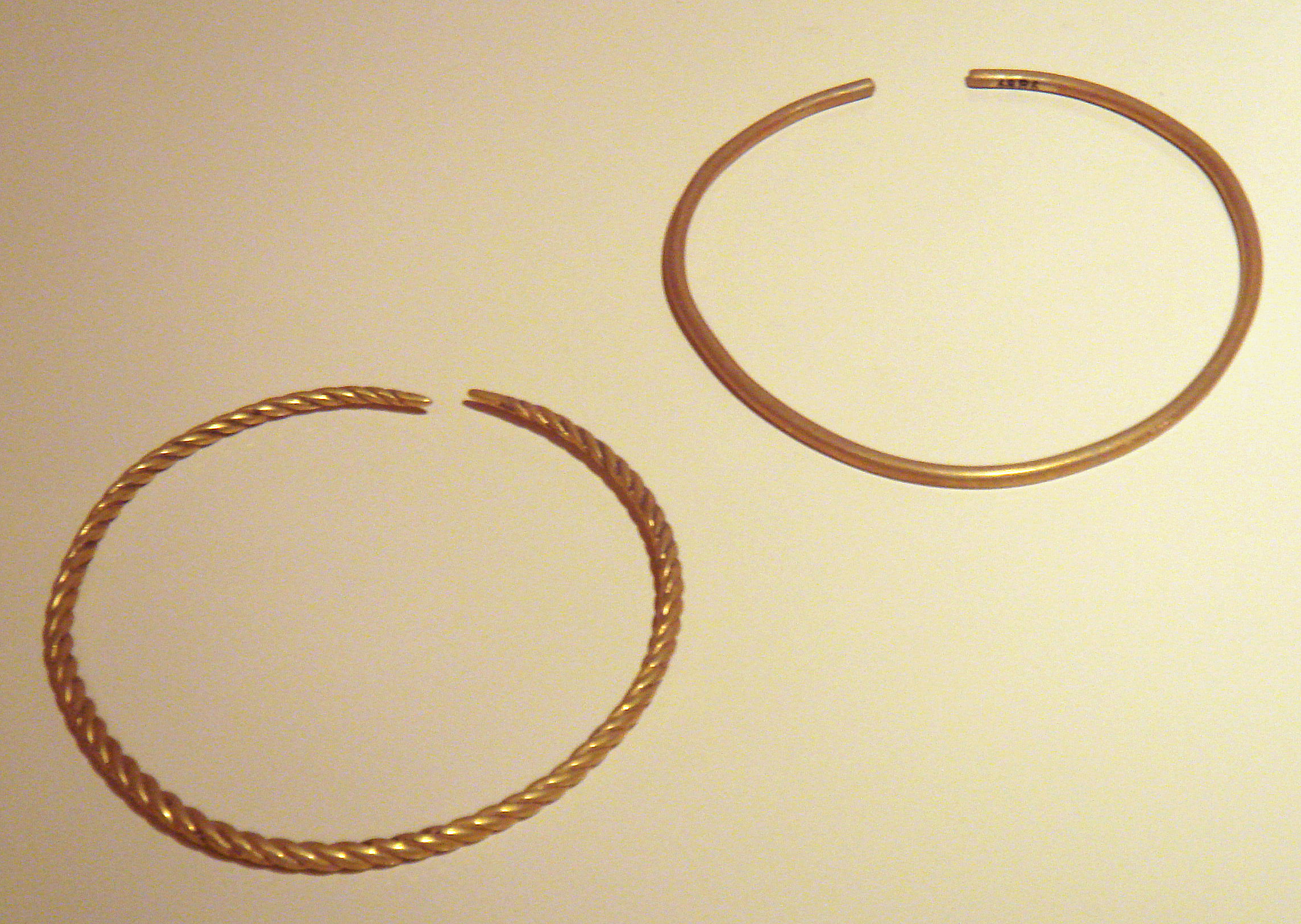 Galatian_torques_3rd_century_BCE_Bolu_Hidirsihlar_tumulus